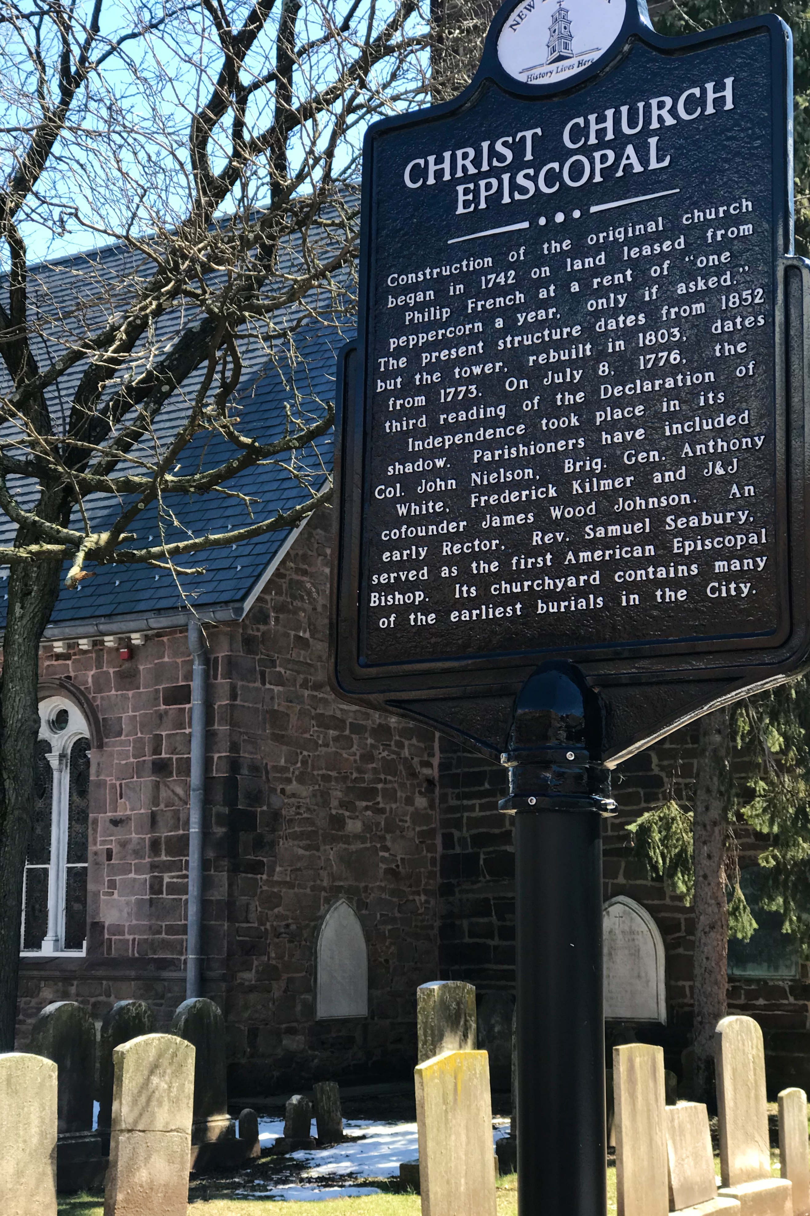 Historical information sign for Christ Church in New Brunswick, New Jersey.